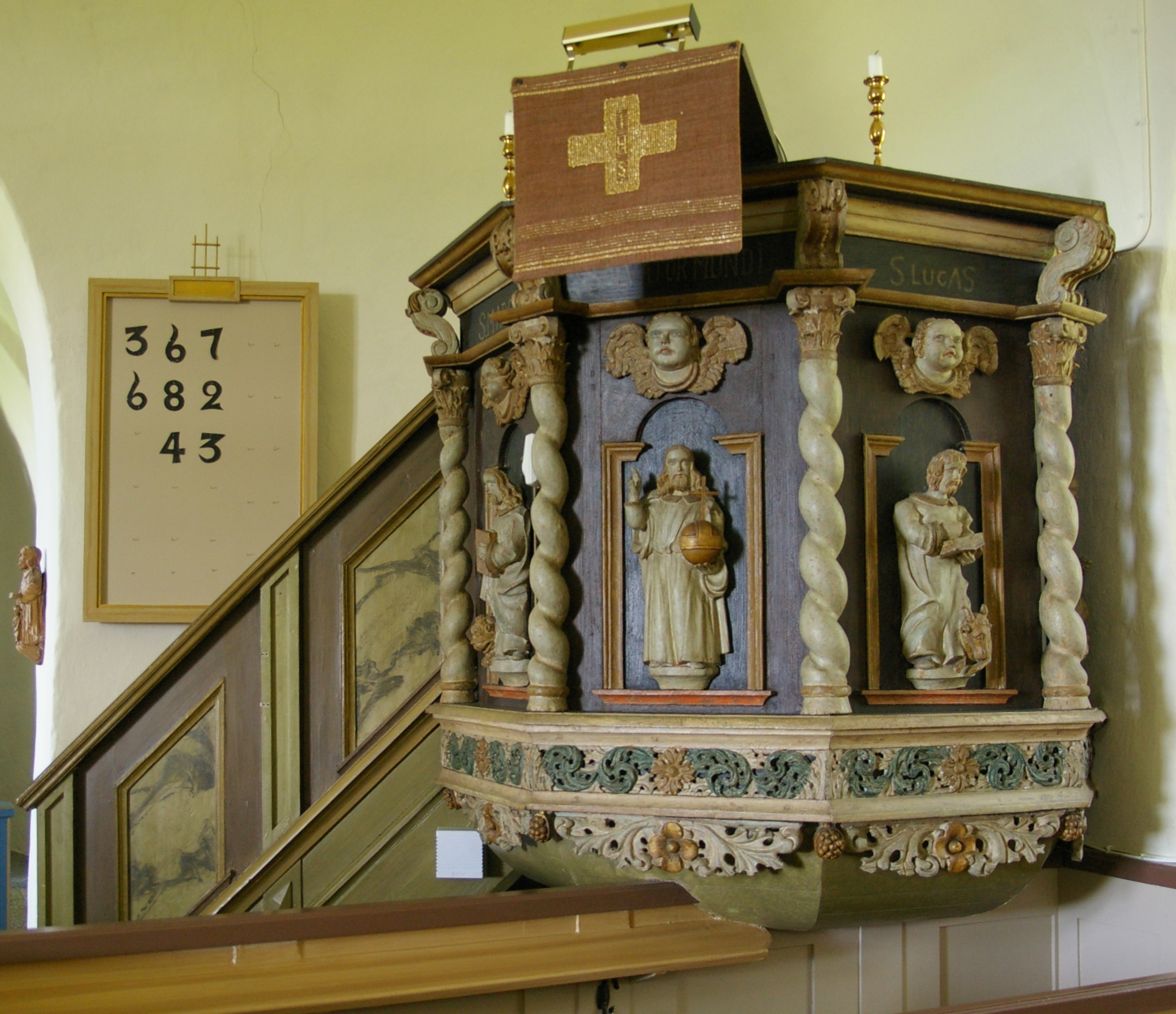 Skörstorps kyrka (swedish: church of Skörstorp), Västergötland, Sweden. The church was built in the 12th century.